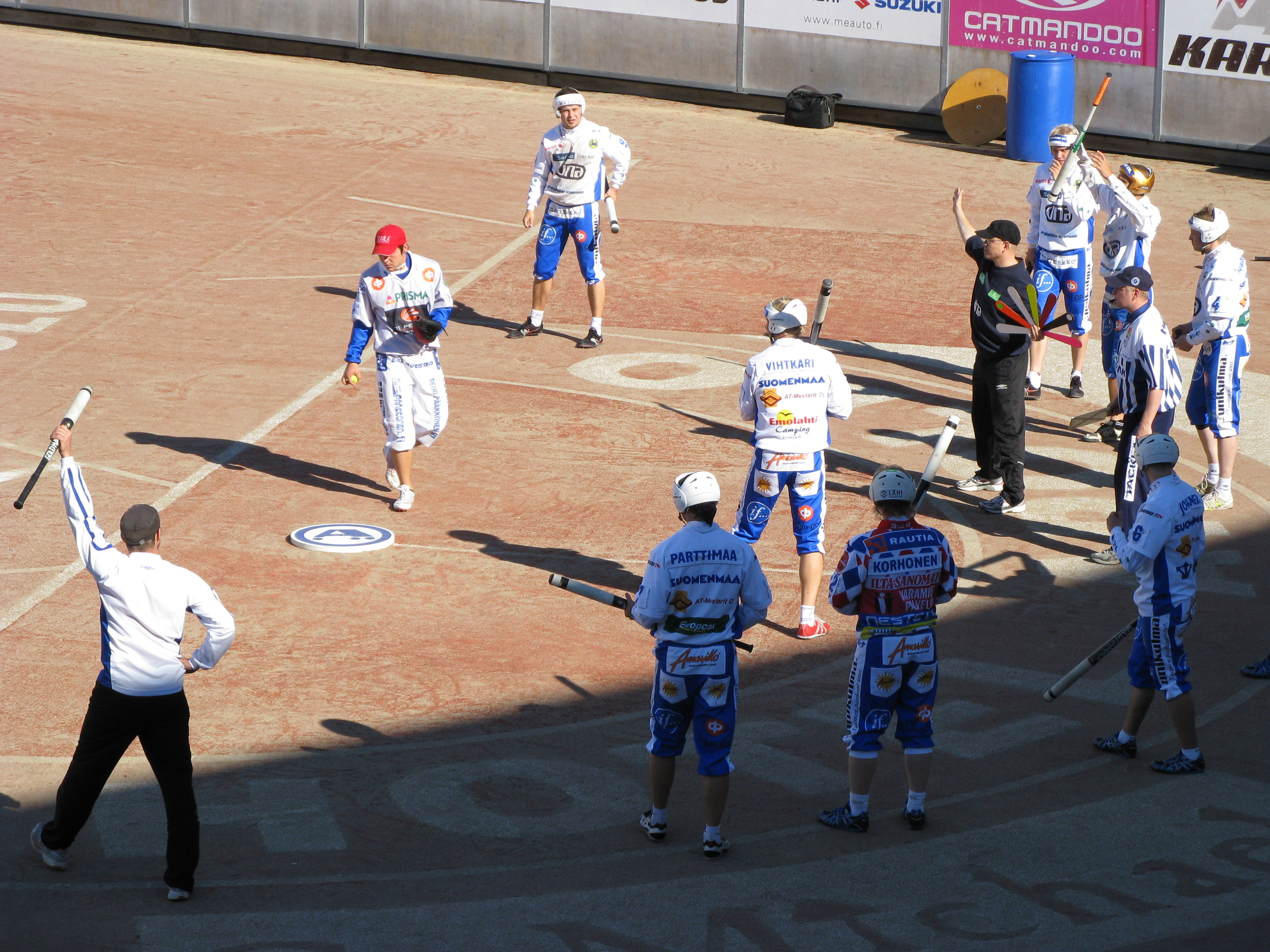 Pesäpallo match Oulun Lippo vs. Nurmon Jymy at Oulu Pesäpallo Stadium in Oulu, Finland